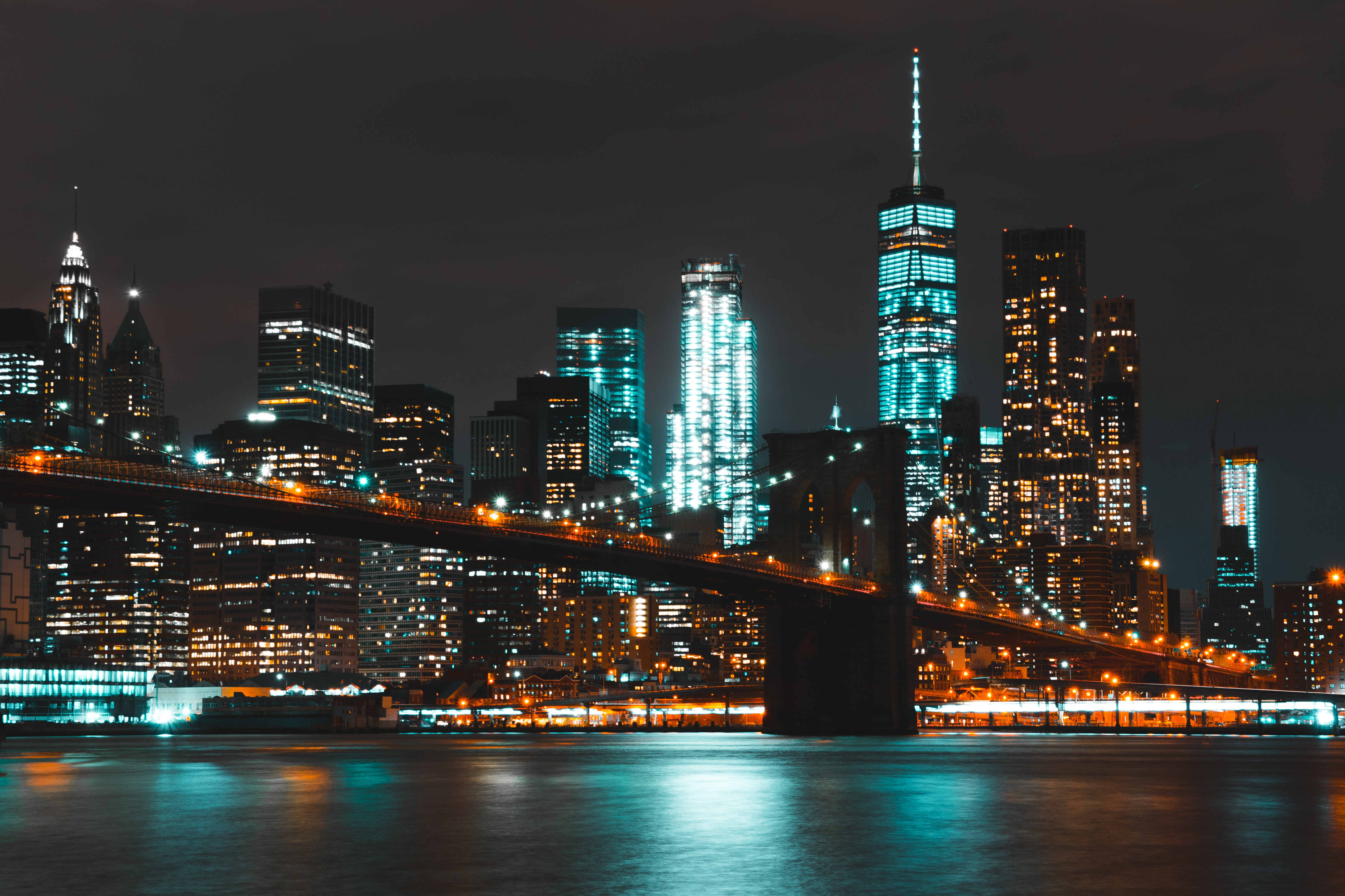 The Brooklyn Bridge (New York City, NY) at night.